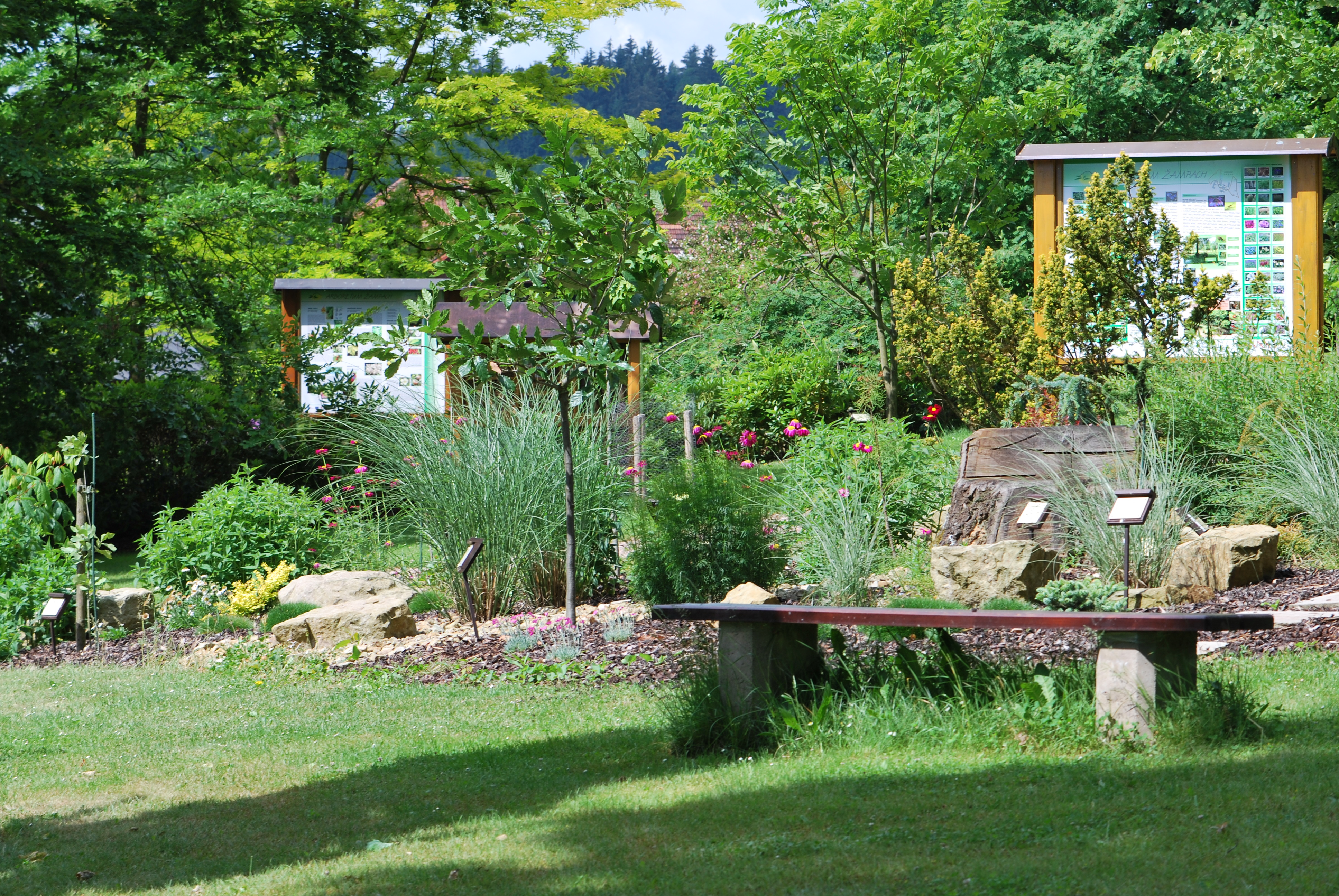 Arboretum Žampach - horní park - léto